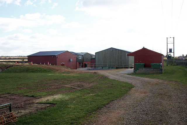 Three Counties Equine Hospital Rear view of the veterinary practice. Taken from the footpath from Naunton to Ripple.